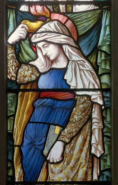 Detail of the east window of All Saints Church, Upper Stondon, Bedfordshire. It was produced by Shrigley and Hunt from a design by Carl Almquist (1848-1924).